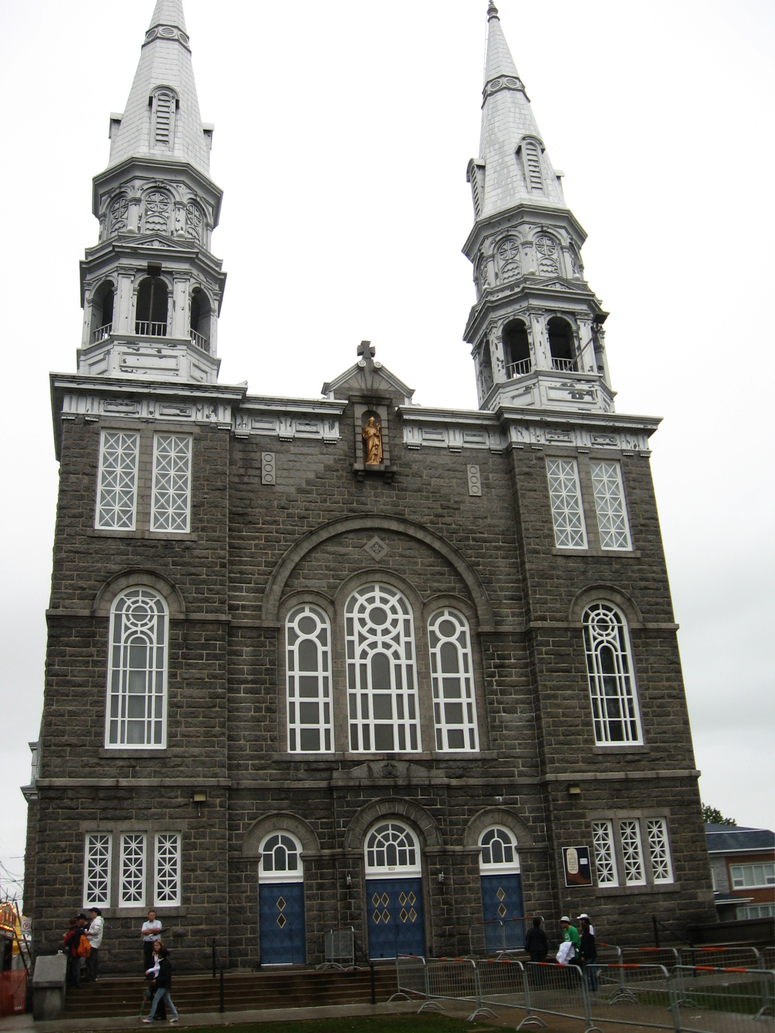 Church of St-Tite, Québec, Canada